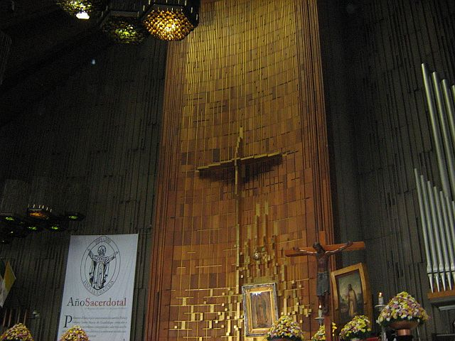 Altar New Basilica of Our Lady of Guadalupe